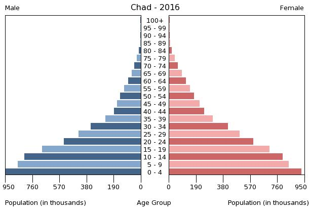 The population pyramid of Chad illustrates the age and sex structure of population and may provide insights about political and social stability, as well as economic development. The population is distributed along the horizontal axis, with males shown on the left and females on the right. The male and female populations are broken down into 5-year age groups represented as horizontal bars along the vertical axis, with the youngest age groups at the bottom and the oldest at the top. The shape of the population pyramid gradually evolves over time based on fertility, mortality, and international migration trends.